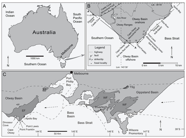 Figure 1: Maps showing positions of localities and regional geological features relative to the city of Melbourne. (A) Australia, indicating the Otway region (box). (B) Positions of coastal vertebrate body-fossil localities in the Eumeralla Formation, faulting and location of section ‘A-A’ (see Fig. 4). (C) Southern Victoria showing subsurface extent of basin systems (dashed lines), outcrop (dark shaded areas) and vertebrate fossil localities (following Bryan et al., 1997). Dashed arrows in (C) indicate the direction of palaeo-flow from contemporaneous volcanism on the eastern Australian Plate margin (see Fig. S1). Abbreviations: EF, Eumeralla Formation; Lat., latitude; Lon., longitude; TSg, Tyers Subgroup; WF, Wonthaggi Formation.